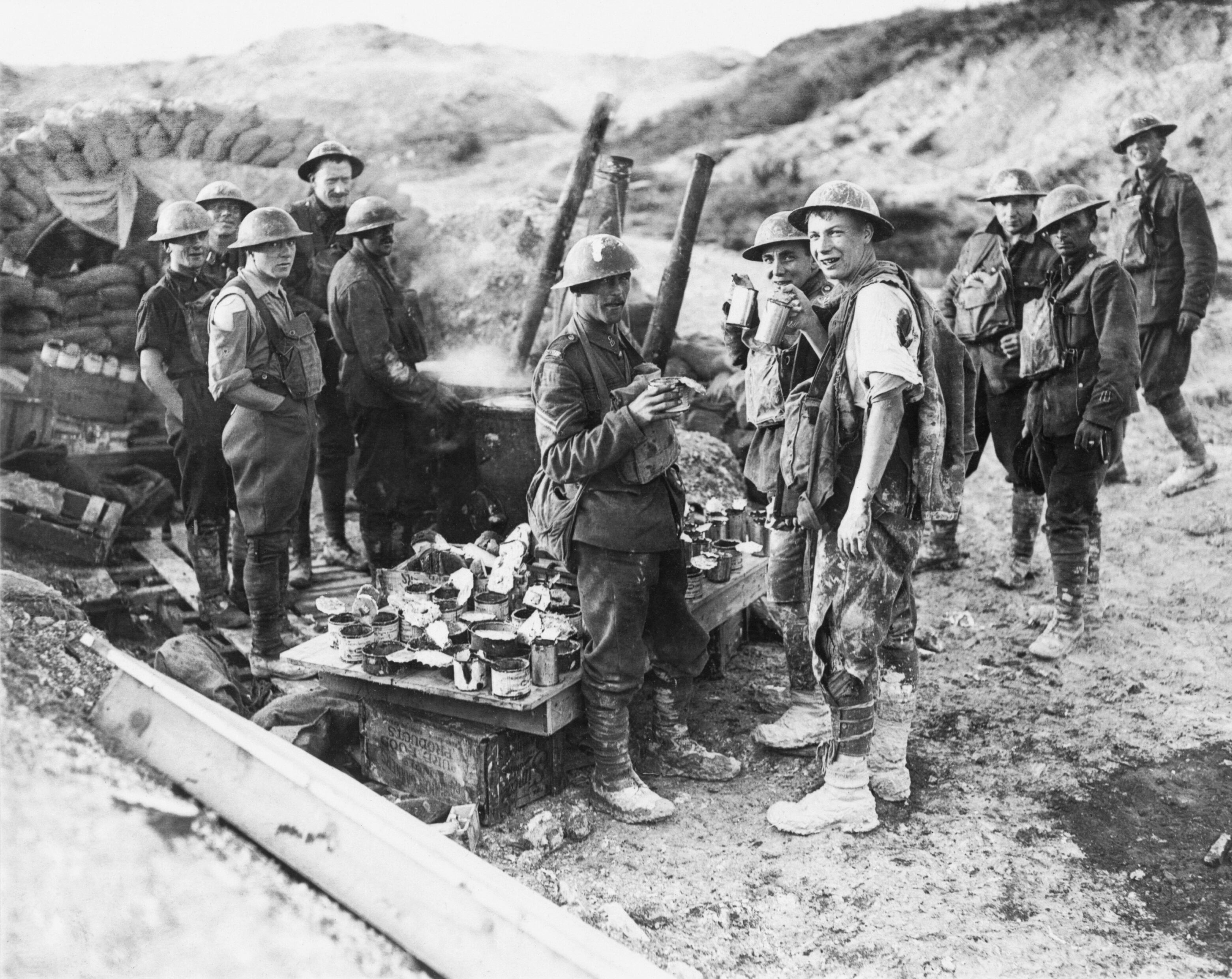 IWM caption : Hill 70 (Lens) 15-25 August: A group of Canadians, standing with mugs at a soup kitchen set up on boards "100 yards from Boche lines" during the push on Hill 70